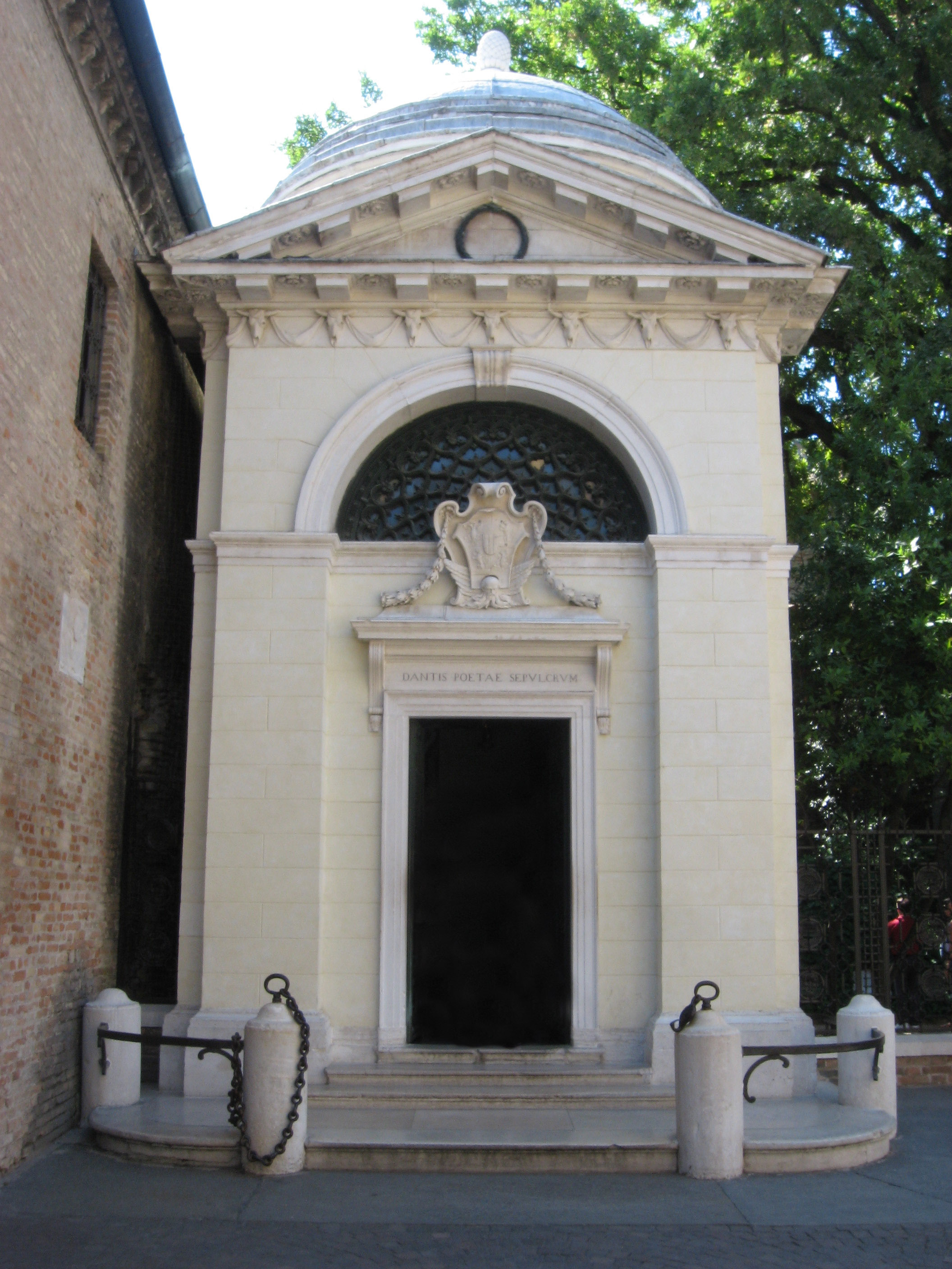 Dante's death tomb in Ravenna.